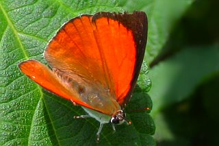 Indian Sunbeam photograph by Kousik Nandy and Sumana Paul (C) 2003 Kousik Nandy and Sumana Paul Released under GFDL and CC-BY-SA.